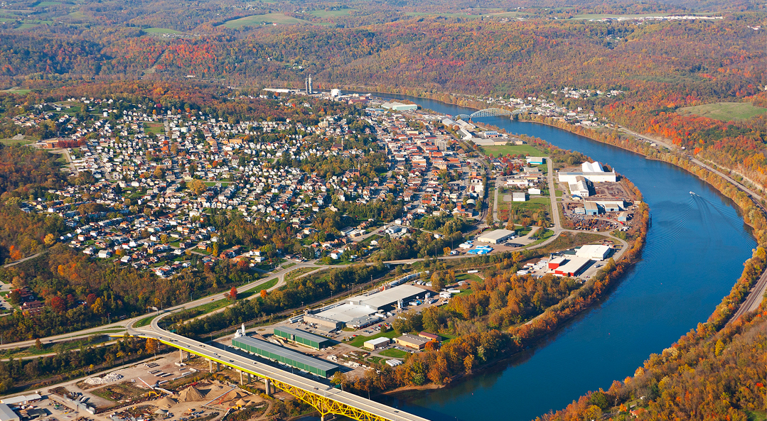 Aerial Photo of Donora, Pennsylvania, United States.